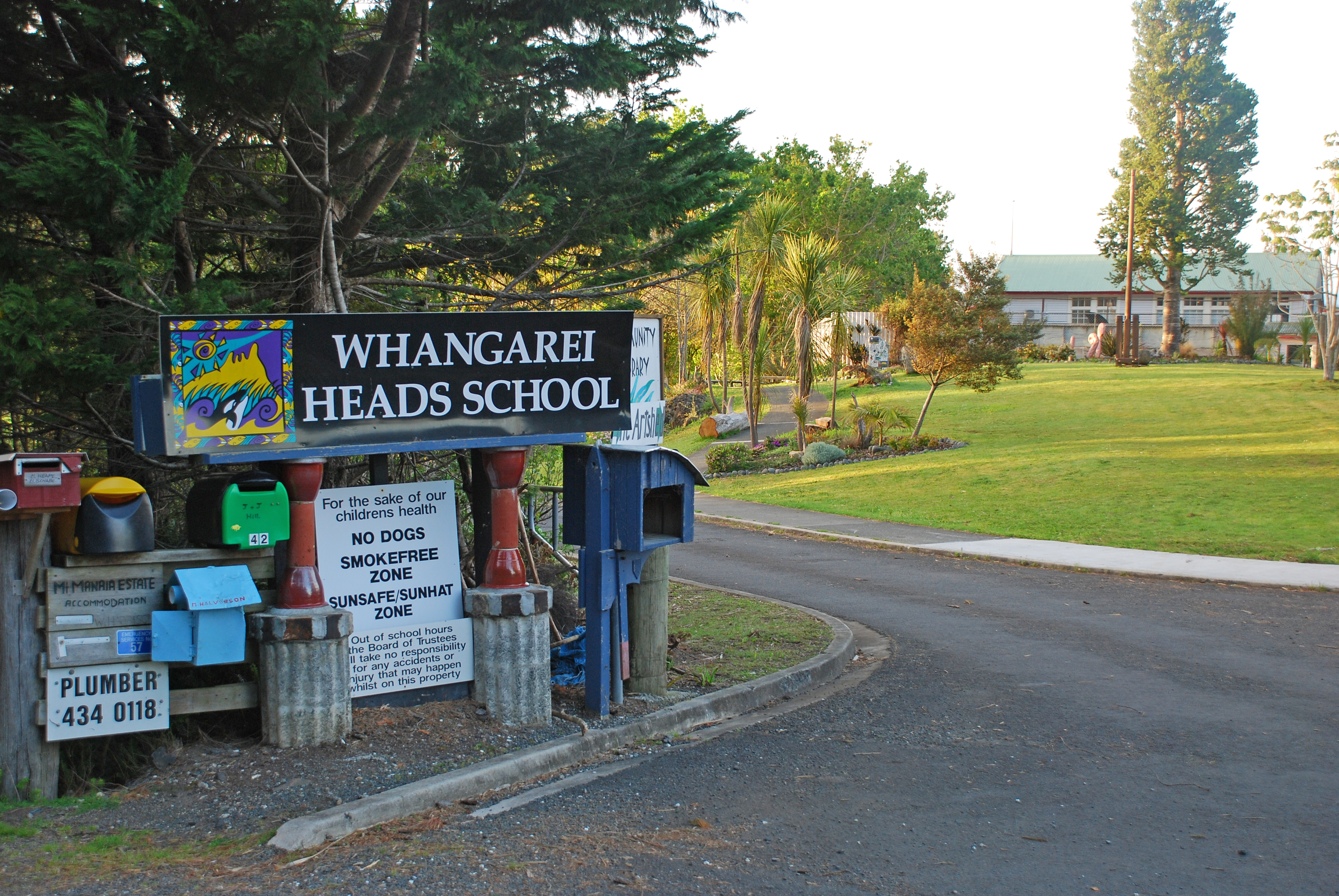 Whangarei Heads School, Northland, New Zealand